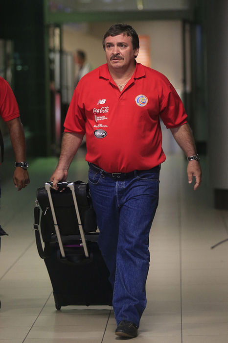 Óscar Ramírez arriving to Costa Rica in June, 2016.